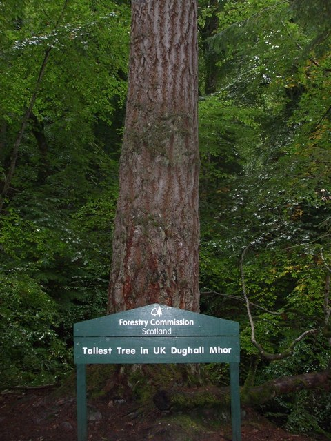 Tallest tree in the UK, 'Dughall Mhor' This Douglas Fir in Reelig Glen has been measured as being 210 feet high! There are many trees in this most attractive glen nearly as tall,indeed it is an awe inspiring veritable 'Cathedral of Trees'. It is believed that James Baillie Fraser (1783-1856) was largely responsible although his father had begun planting in the area. James travelled widely including to the Himalaya and was the first European to reach the sources of the Jumna and the Ganges.